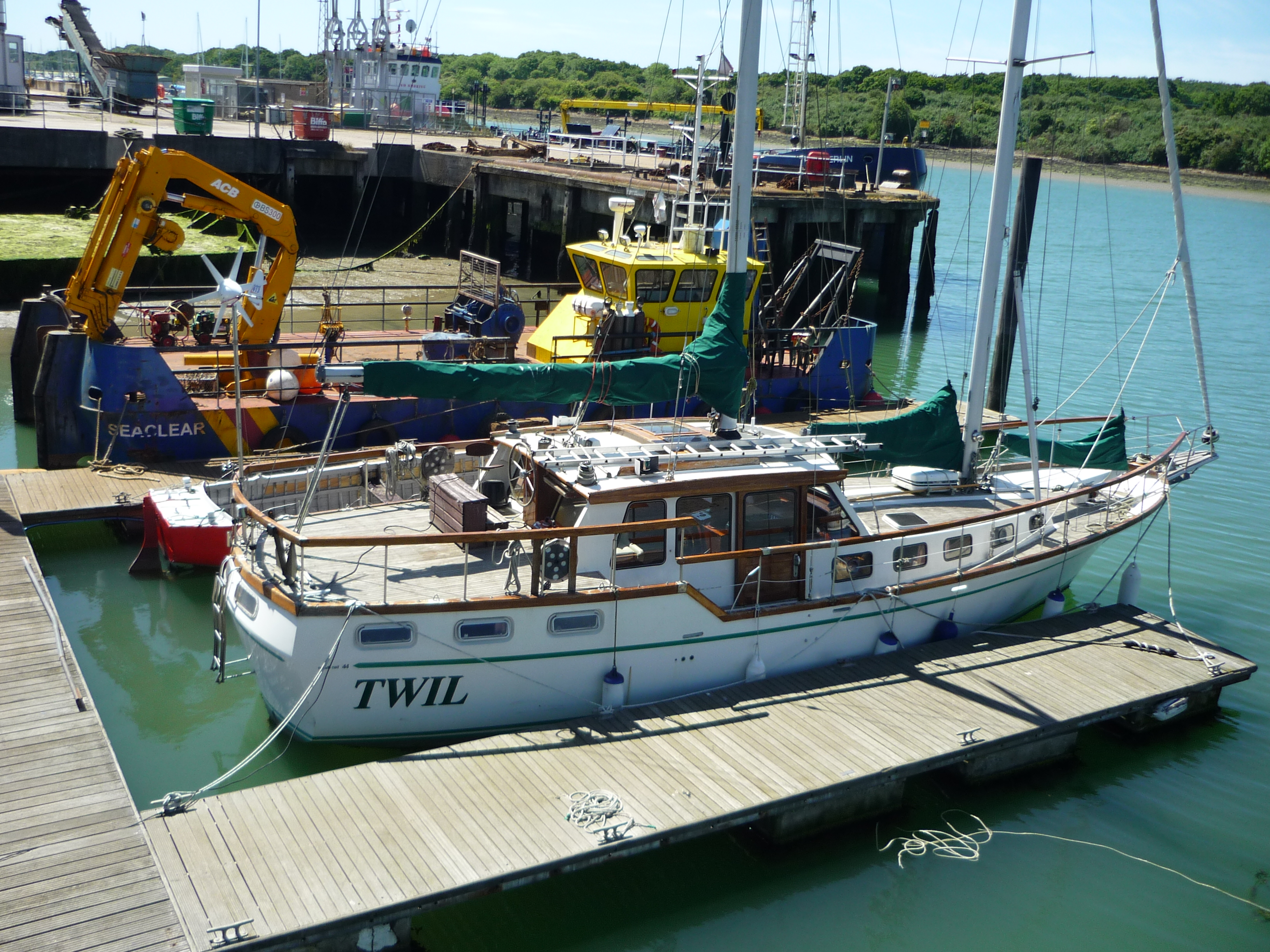 Overall design of a Nauticat 44